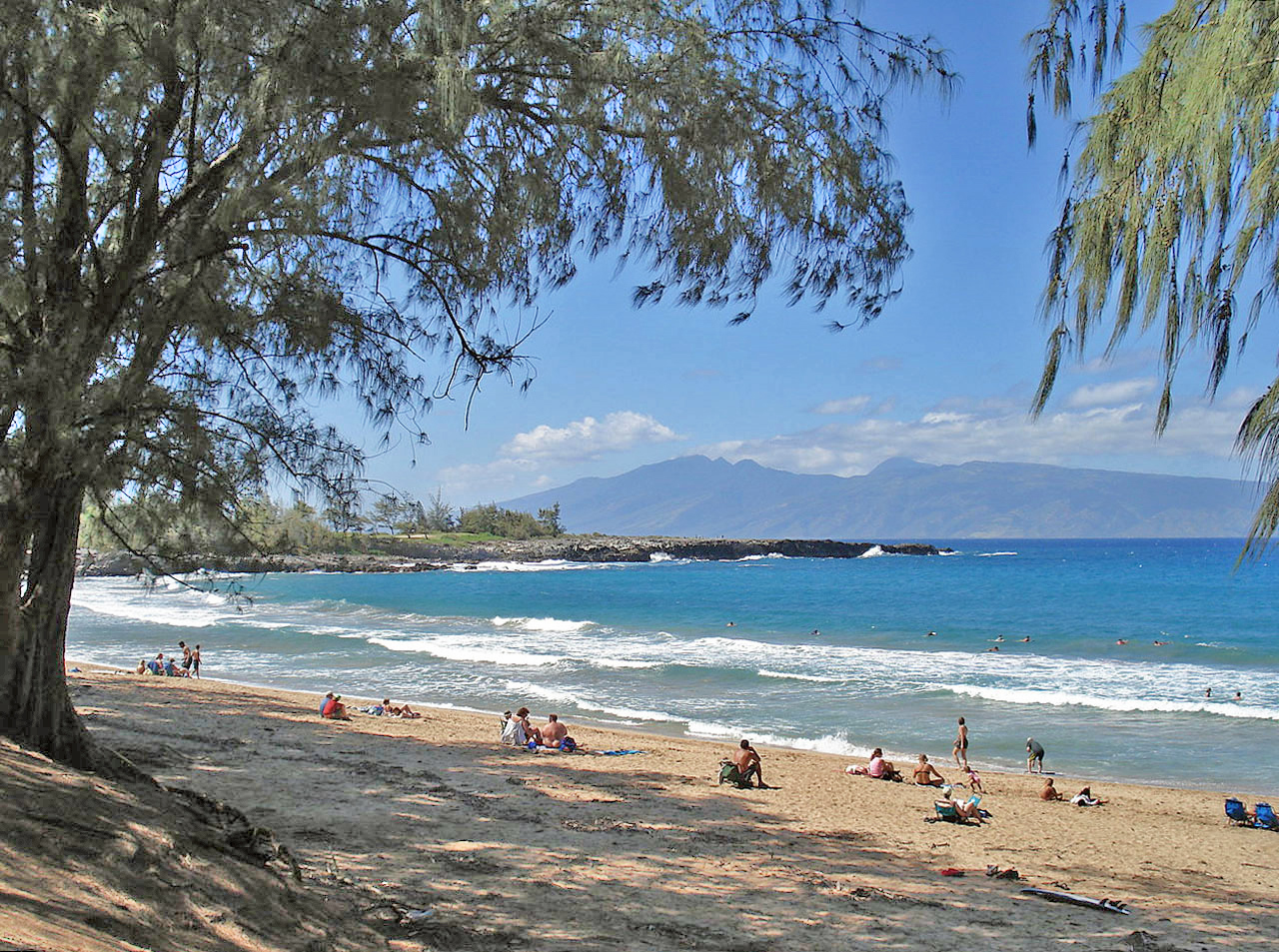 D. T. Fleming Beach Park, Kapalua, Maui, Hawaii, US. Best beach of US scored in 2006.